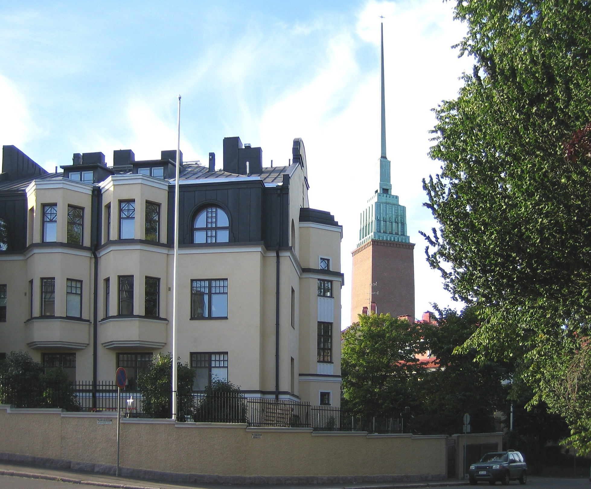 A villa and Mikael Agricola Church (on the background) in Eira district, Helsinki, Finland. The villa was designed by Vilho Penttilä and Jussi Paatela, and it was built in 1913.